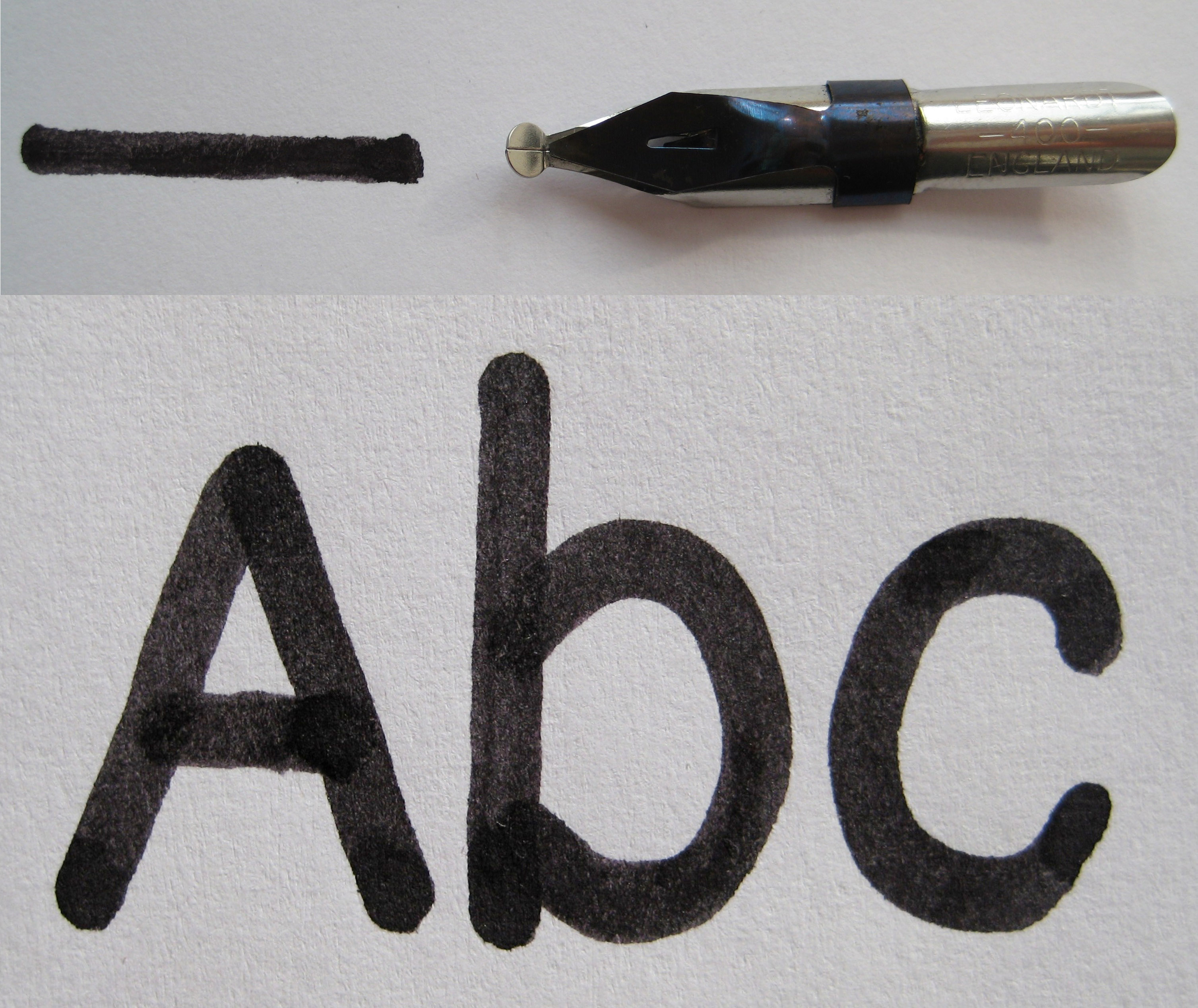 Ornamental nib with a stroke and writing sample